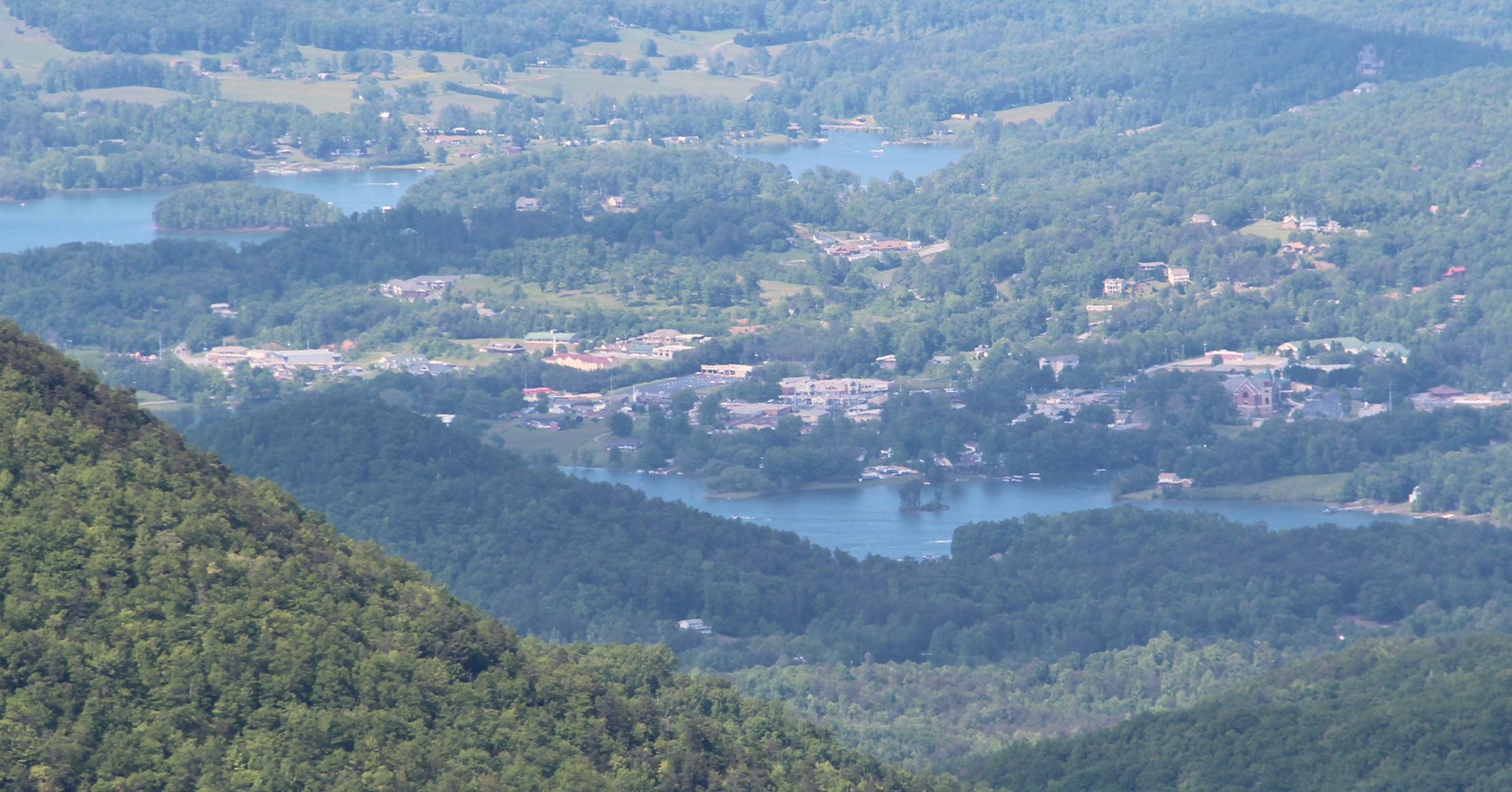 Hiawassee, Georgia viewed from Brasstown Bald